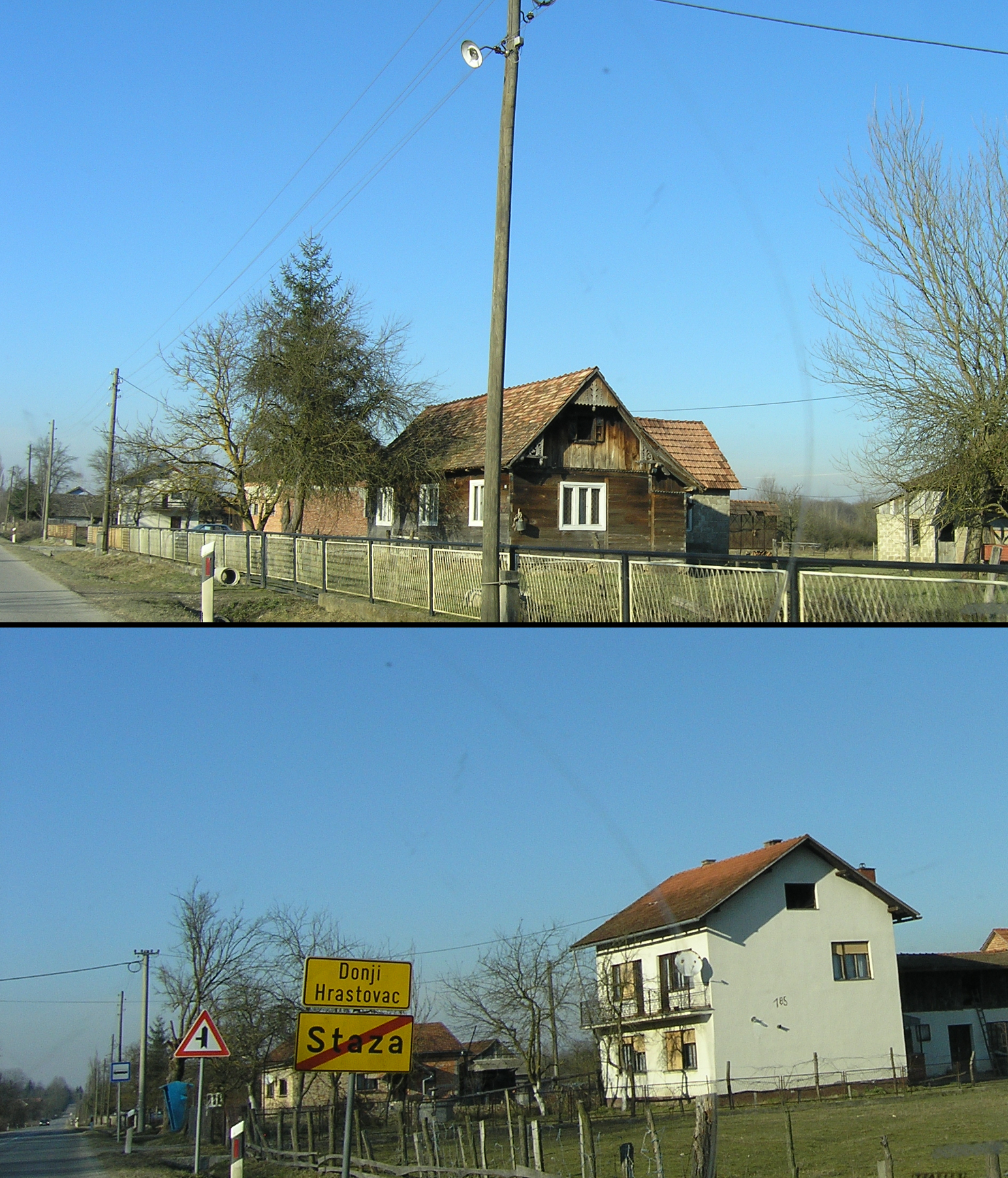 Village Donji Hrastovac in Sisak-Moslavina county, near Sunja, Croatia